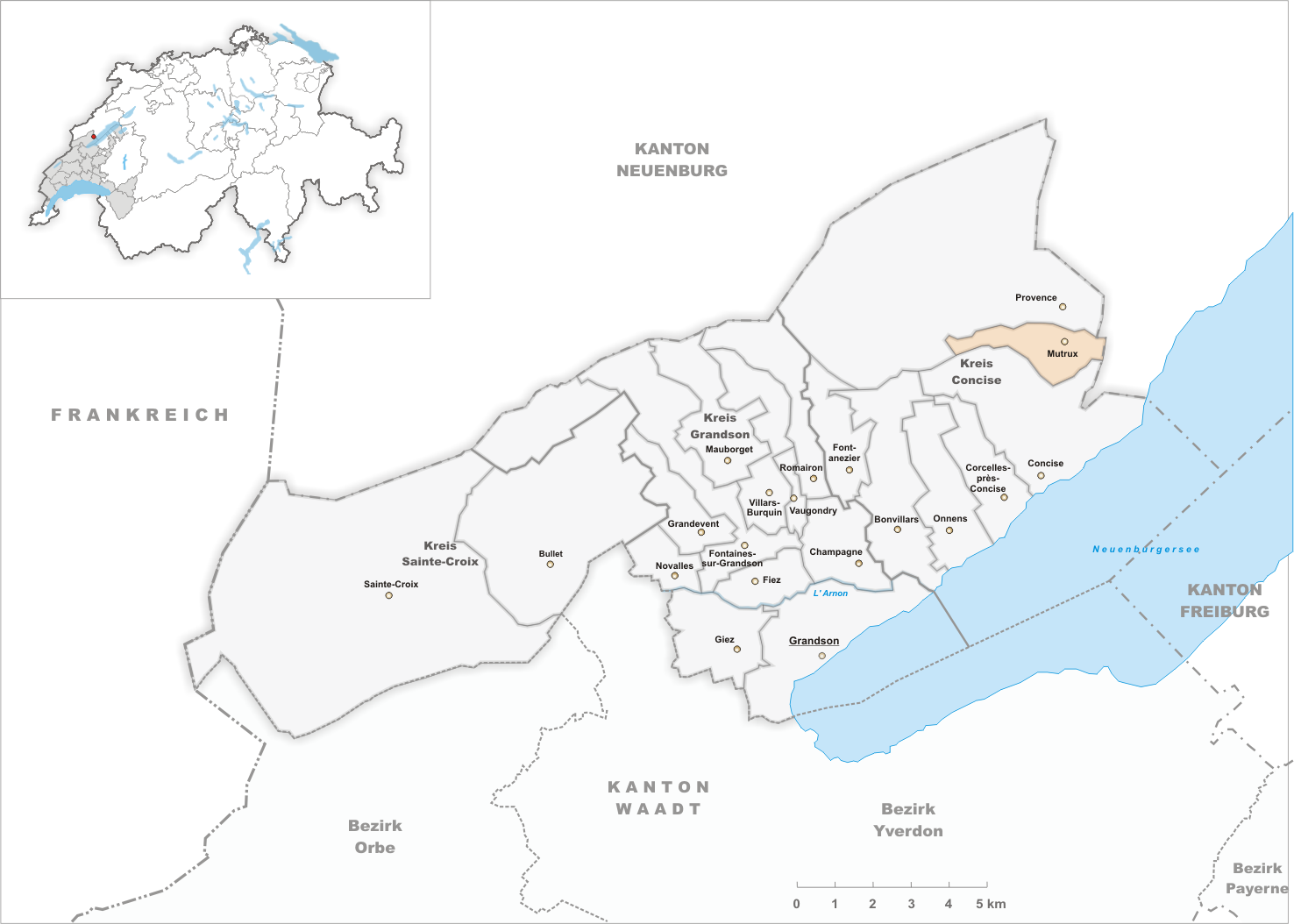 Municipality Mutrux